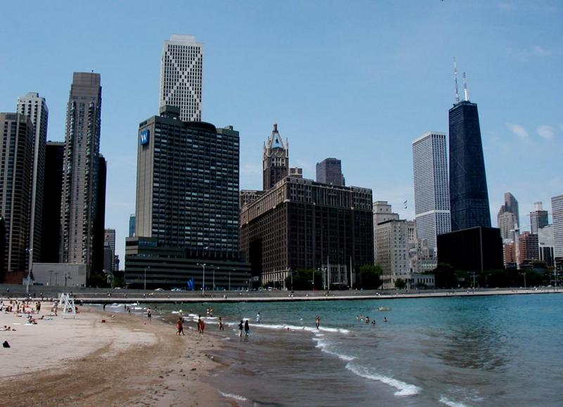 Ohio Street Beach in Chicago Illinois. July 4th 2005 Photo Taken by Jay Babin Canon Digital Rebel